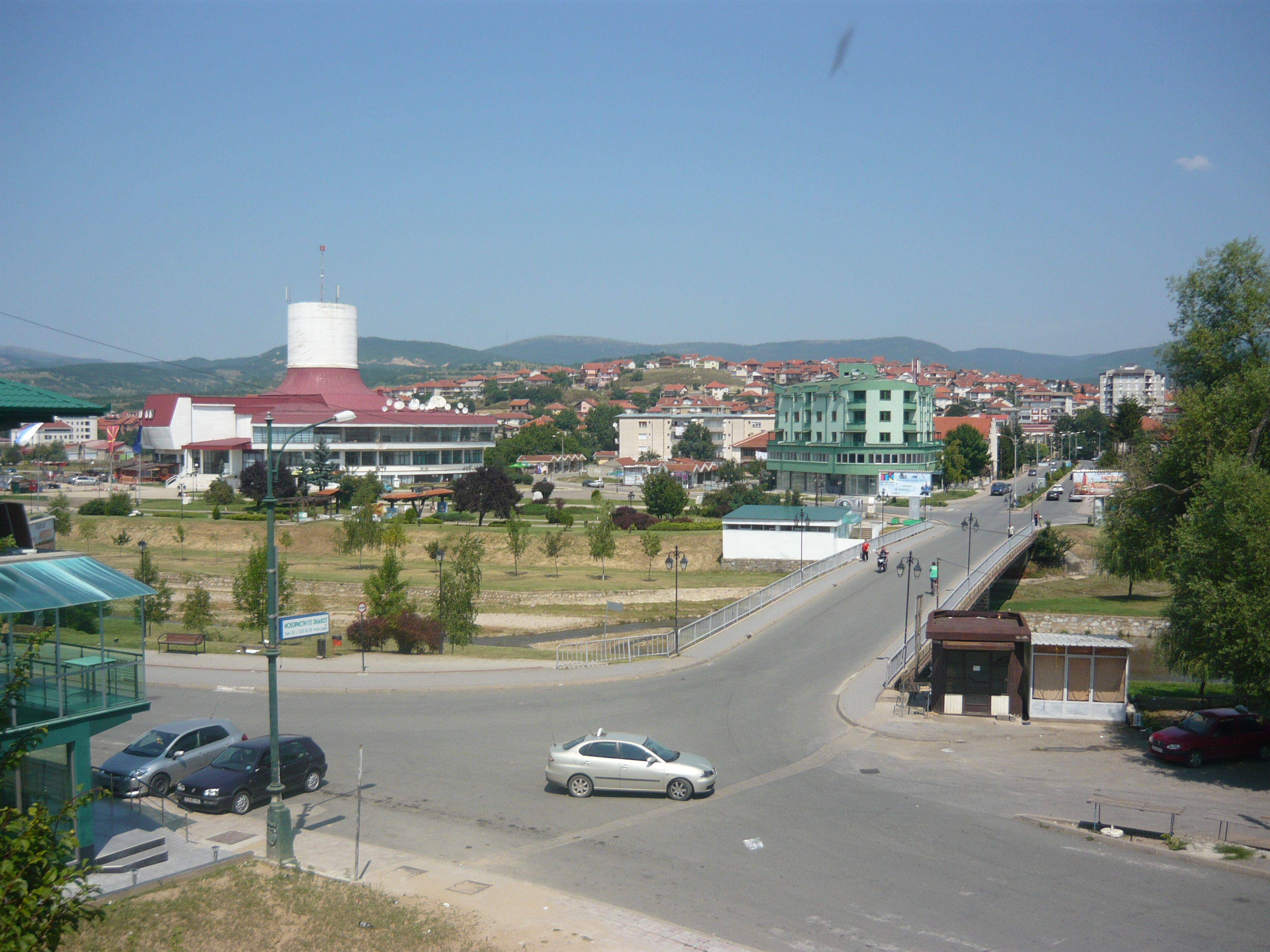 the Eastern Macedonian town of Delcevo